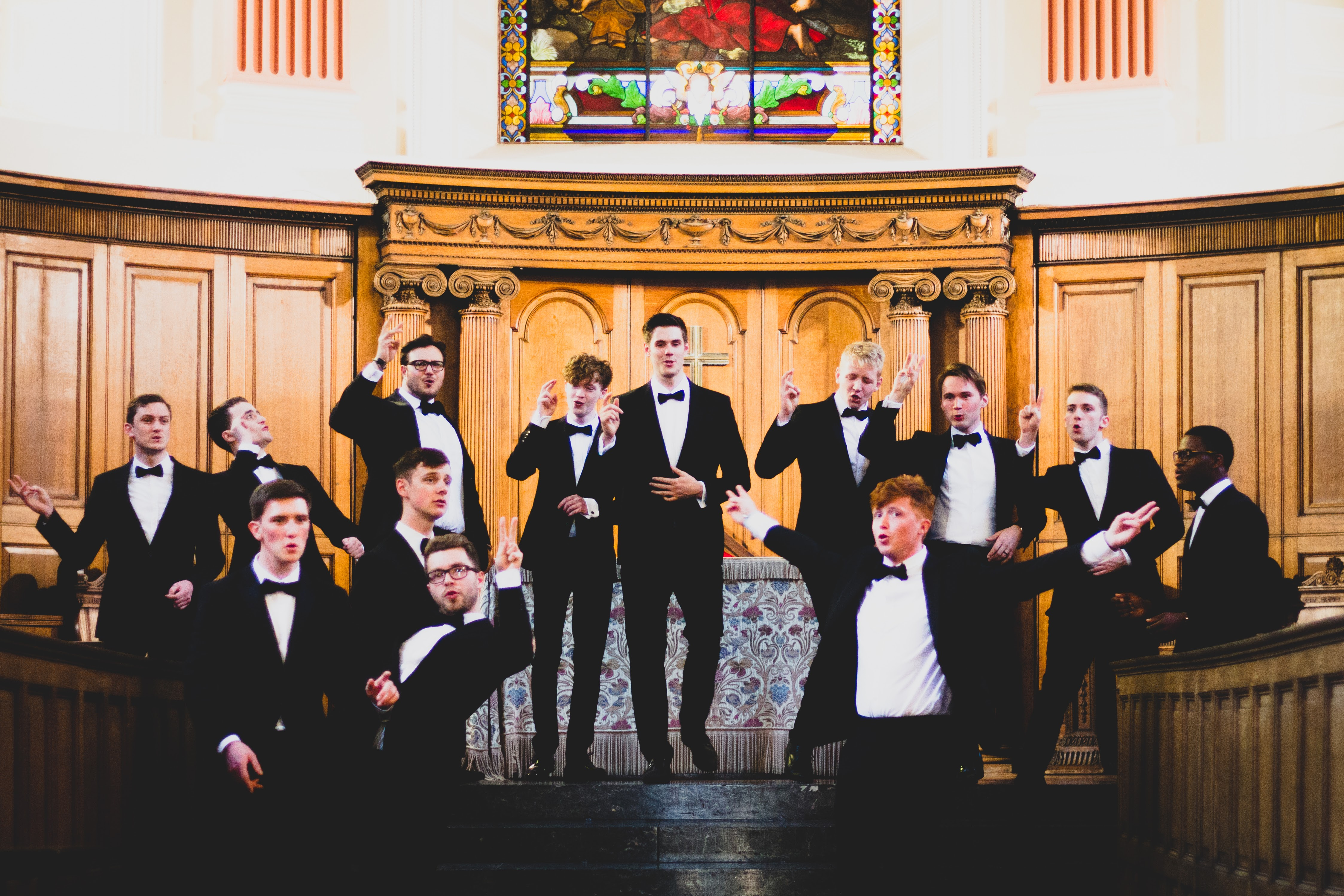 Trinitones in concert in June 2017